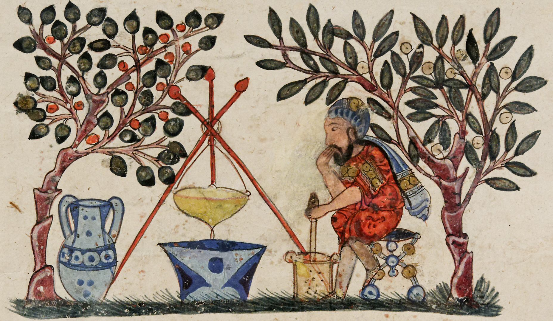 Physician preparing an elixir: folio from a manuscript of the De Materia Medica by Dioscorides (ca. 40–90 AD).